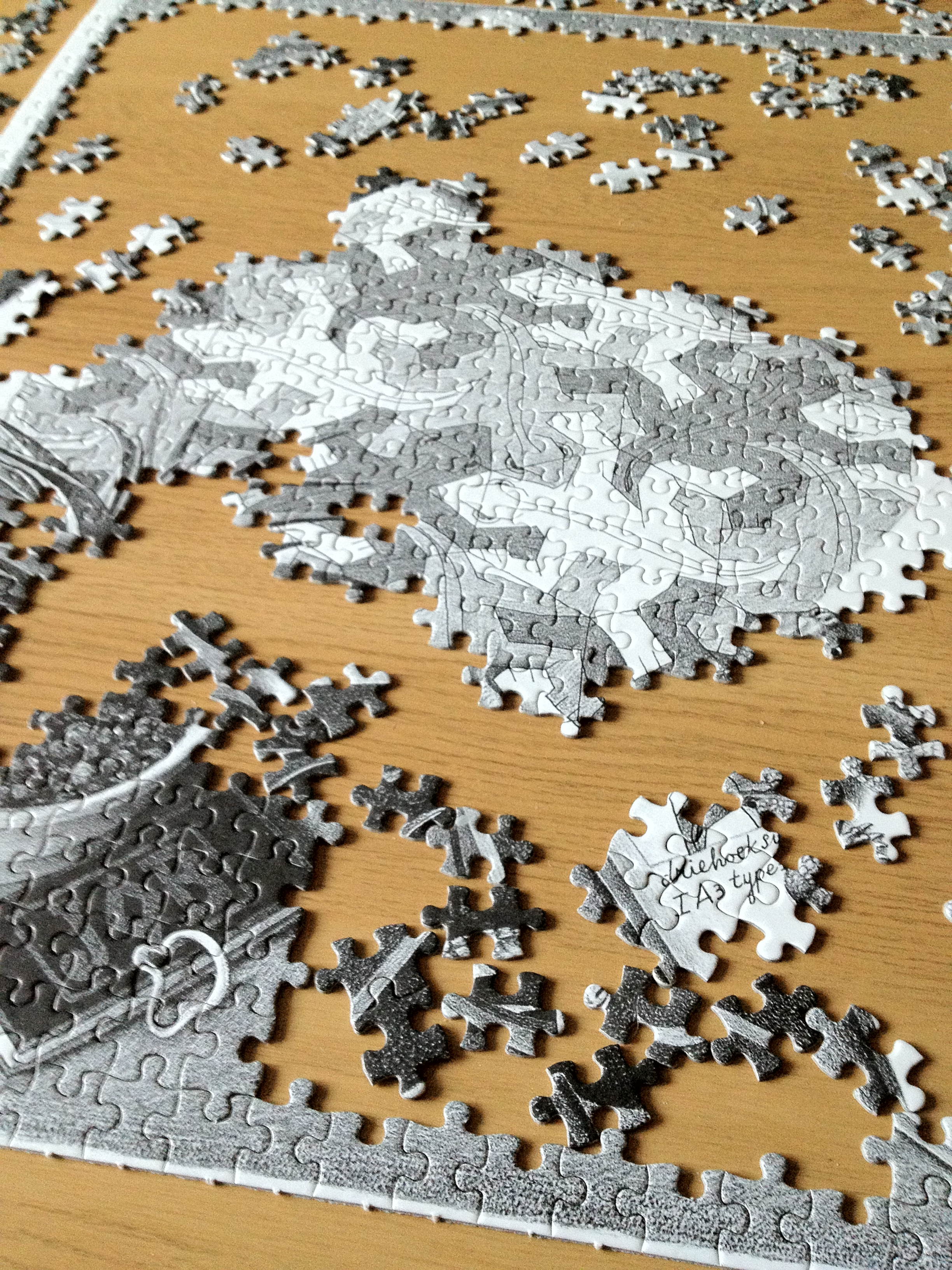 An Escher jigsaw